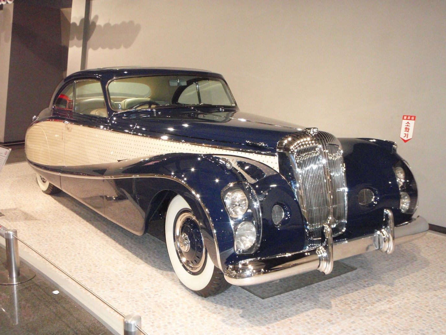 Pictured at the Samsung Transportation Museum, Seoul, South Korea. Originally finished in two tones of powder blue with tiny painted four-leaf clovers on the side panels. Seats were covered with lavender blue leather piped in dark blue. Interior trim borders and the steering wheel were covered in blue lizard skin and so too were the cabinets on either side of the foldaway rear seats. The cabinets contained cut glass flasks and decanters, silver Thermos jugs, sandwich boxes, cups, saucers and linen. Recesses above the rear seats contained a cine-camera and field-glasses. The left hand door contained a manicure set covered in blue lizard skin. A tray under the instrument panel contained a mirror, comb, clothes brush, two silver-topped jars and a powder compact. Side windows are double-glazed and electrically-operated. Windscreen glazed with heat-reflecting Triplex safety glass. The glass panel in the roof may be covered at will by a sliding shutter.The engine is a straight-eight cylinder